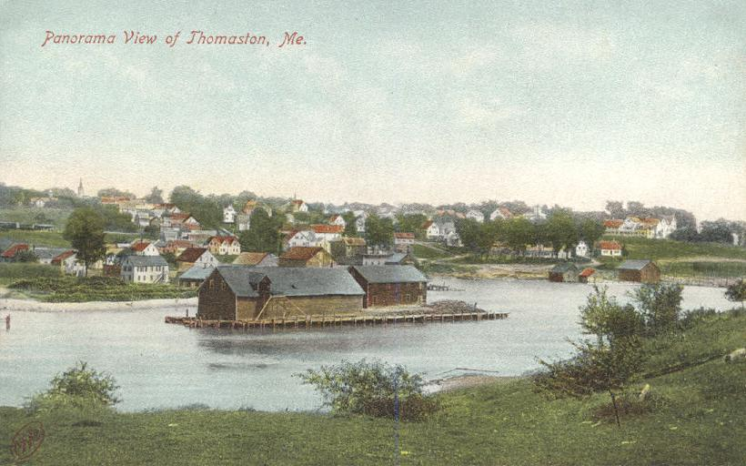 Panorama view of Thomaston, Maine